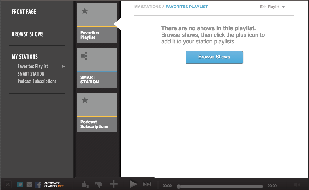 A screenshot of Stitcher Radio's web app.